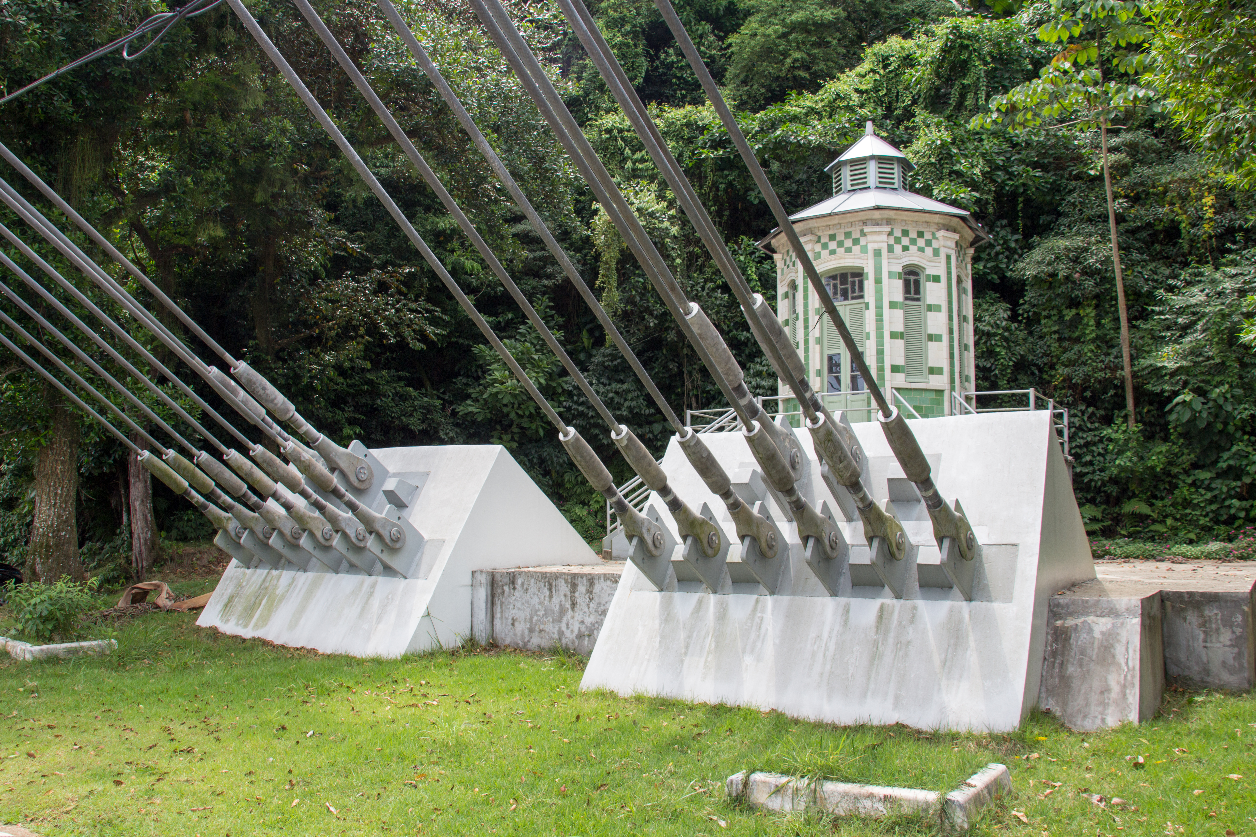 Ponte Pênsil de São Vicente, Brazil